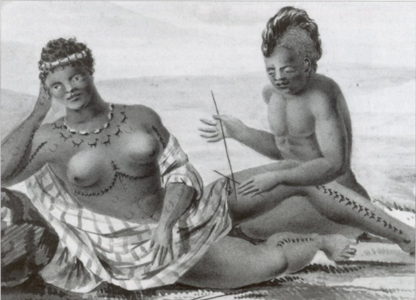 Iles Sandwich - Manier dont les Naturels se Tatouent (Tattooing, Sandwich Islands), graphite and ink wash by Jacques Arago, early 19th century, Honolulu Academy of Arts